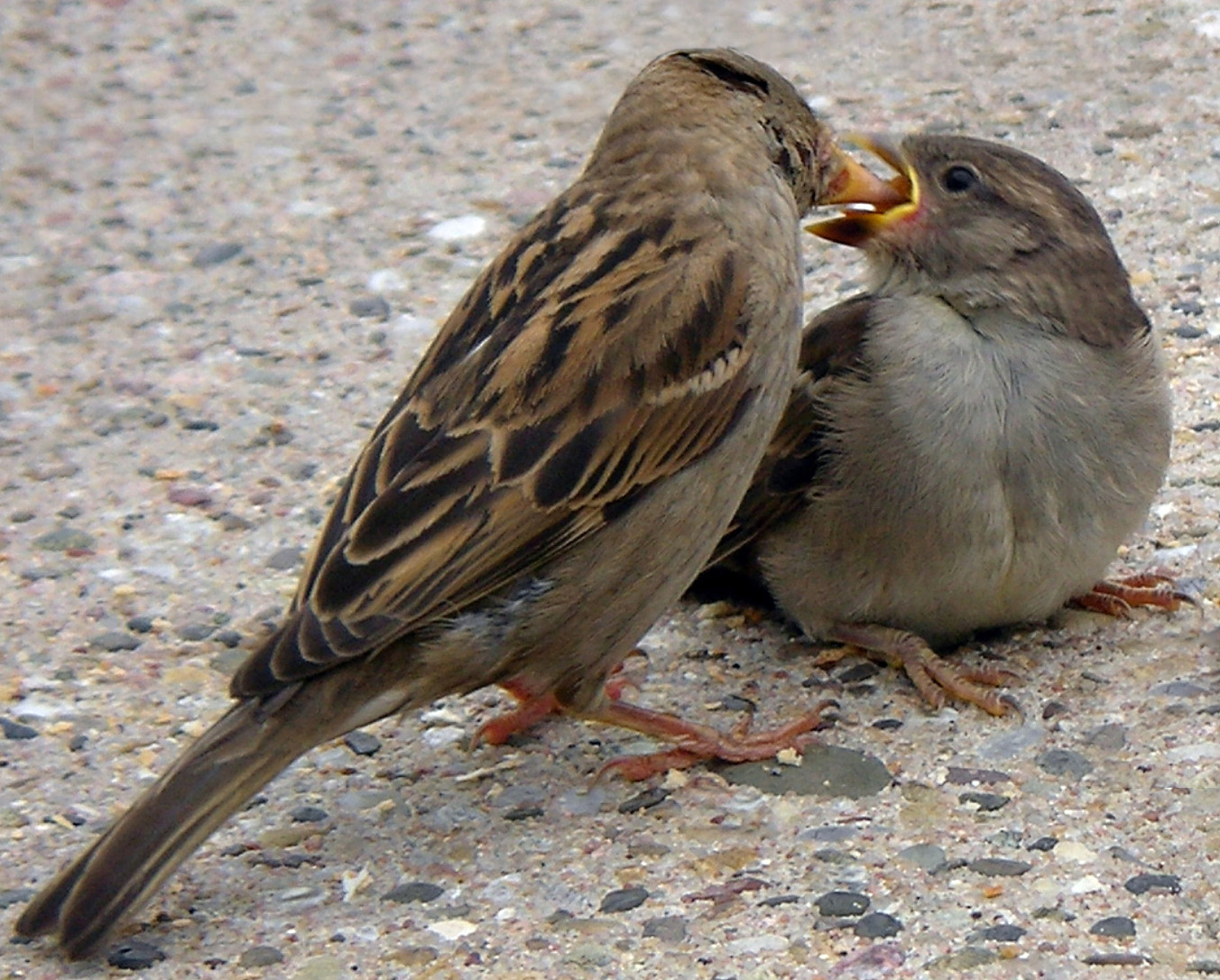 Female House Sparrow (Passer domesticus) feeding its fledged chick.